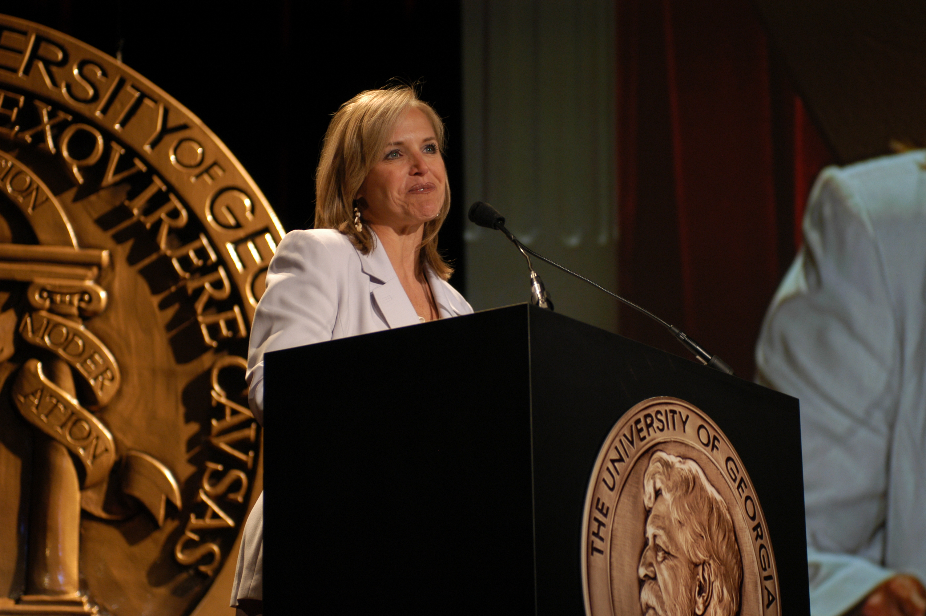 Katie Couric hosting the 63rd Annual Peabody Awards Luncheon Waldorf=Astoria Hotel May 17, 2004